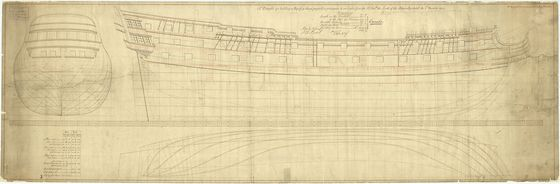 Technical drawing; 1:48. Plan showing the body plan with sternboard outline, sheer lines with inboard detail, and longitudinal half-breadth for building 'Canada' (1765), a 74-gun Third Rate, two-decker, at Woolwich Dockyard. Signed by William Bately [Surveyor of the Navy, 1755-1765].